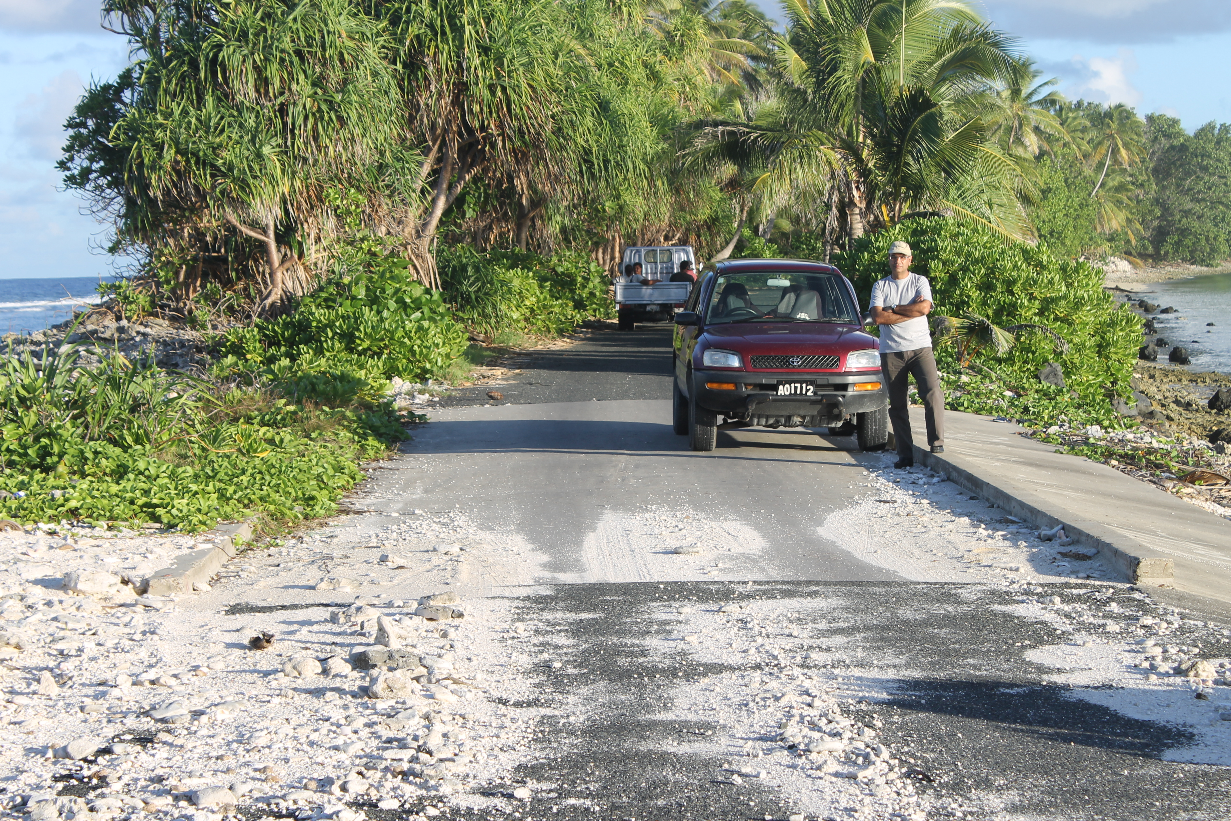 Narrowest part of Funafuti